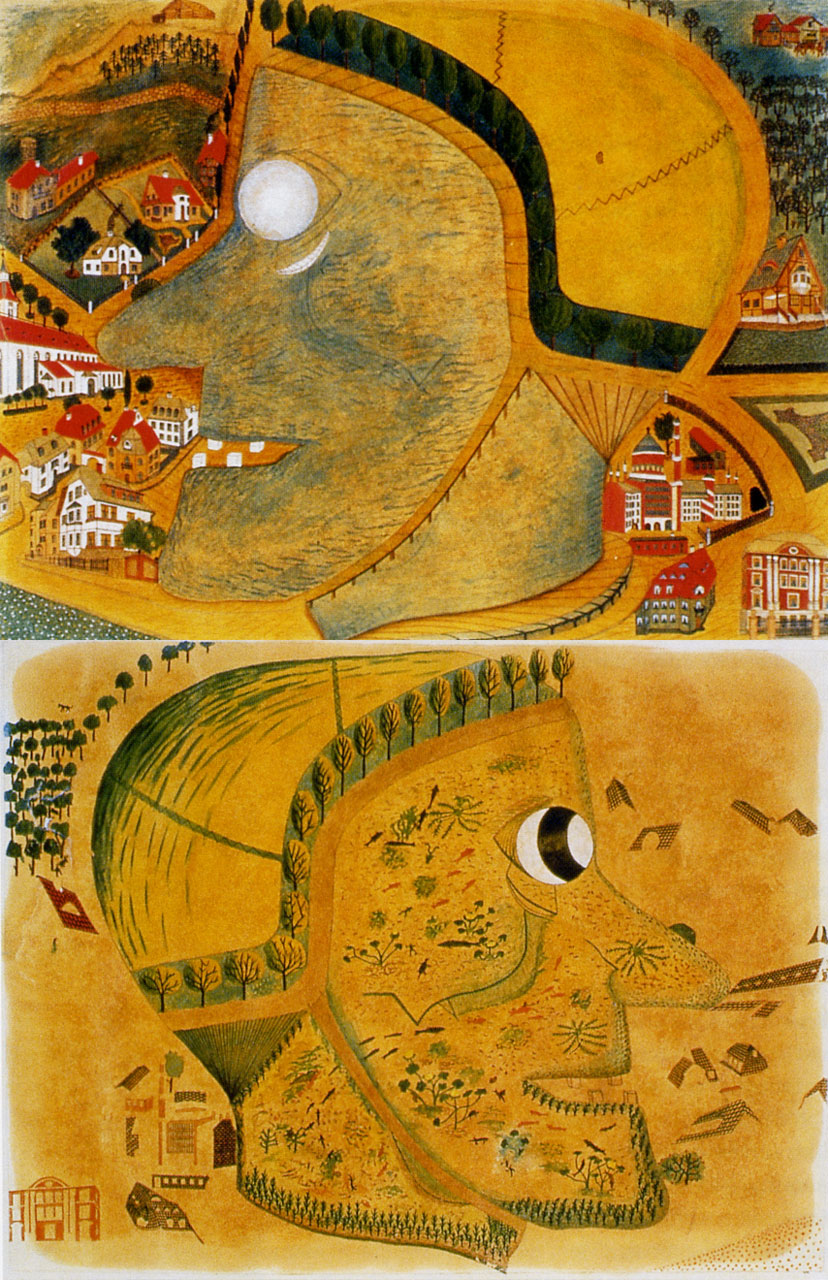 August Natterer: Witch's head, c. 1915, Prinzhorn Collection